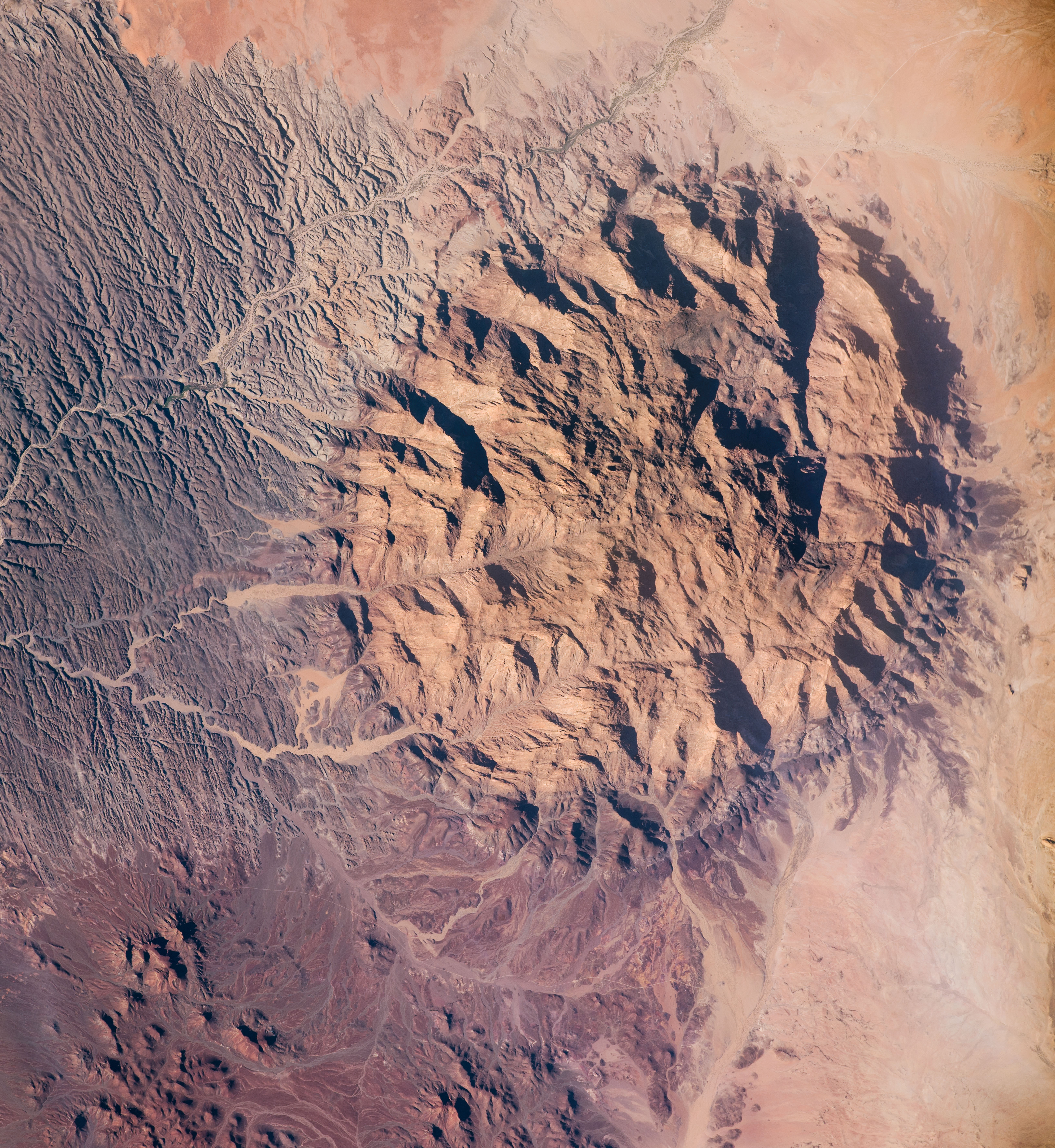 Expedition 47 Earth observation composite created with iss047e028742 - iss047e028744..135A2099 �ޖ 135A2101 Unique structure in Namibia Mt Brandberg Nature Reserve This composite image of the Mt Brandberg Nature Reserve in Nambia, Africa was put together at the Johnson Space Ceneter in Houston Texas from several International Space Station images. Expedition 47 crew members photographed the middle of a vast south African desert. Brandberg is Afrikaans, Dutch and German for Fire Mountain, which comes from its glowing color which is seen in the setting sun. Its highest point, the Königstein (German for 'King's Stone'), stands at 8,550 ft. above sea level and has spiritual significance to the native tribes in the area.